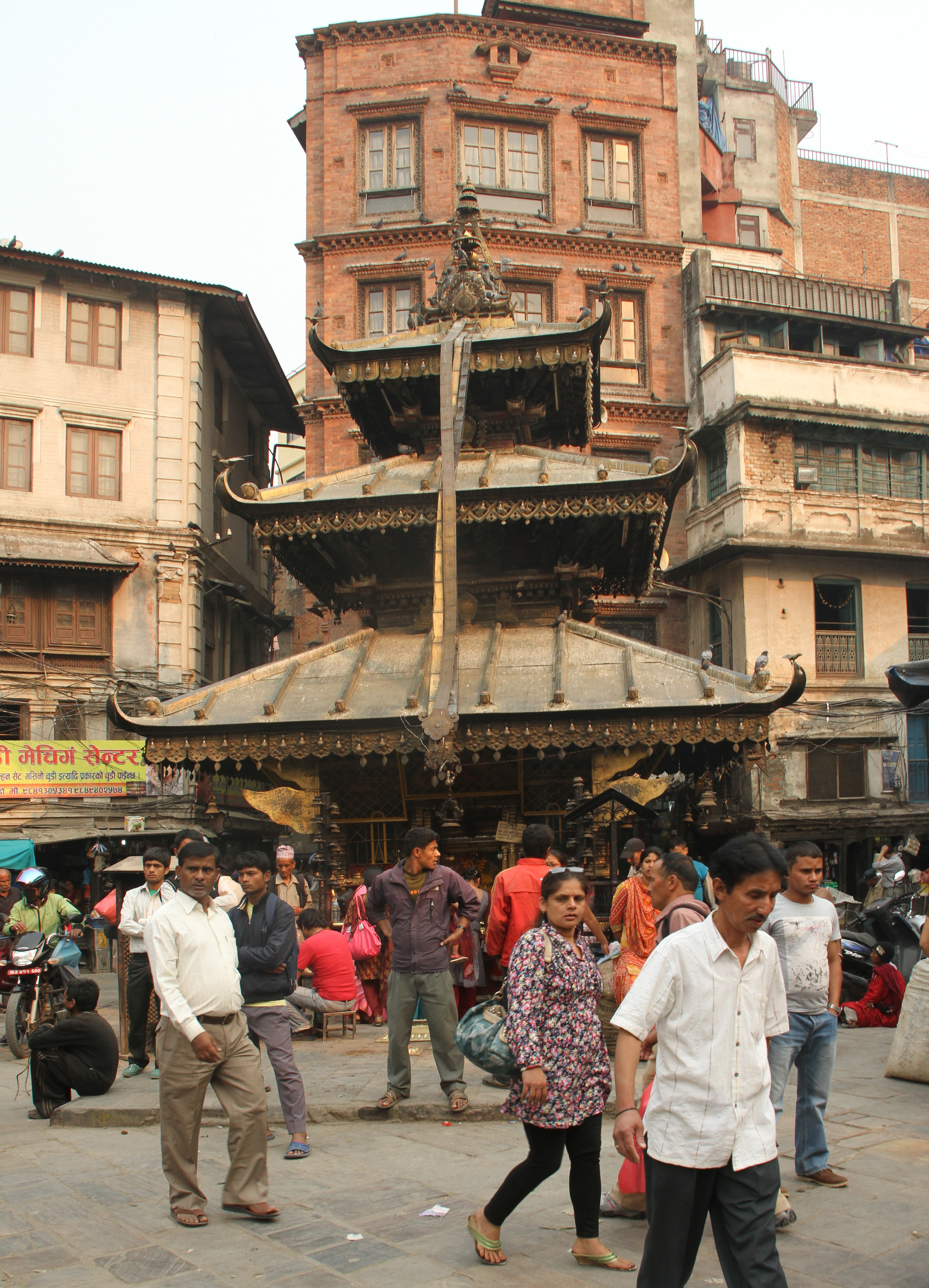 Annapurna Temple, Kathmandu